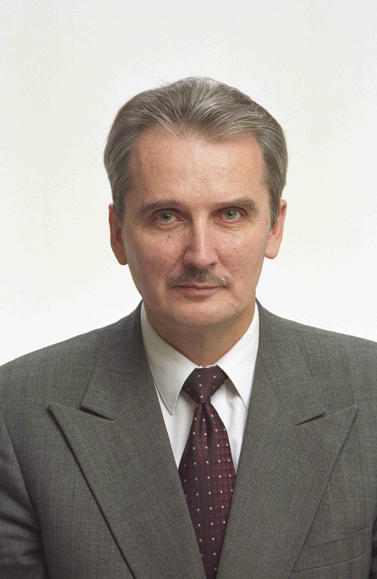 Deputy of the 9th Saeima Jānis Lagzdiņš.